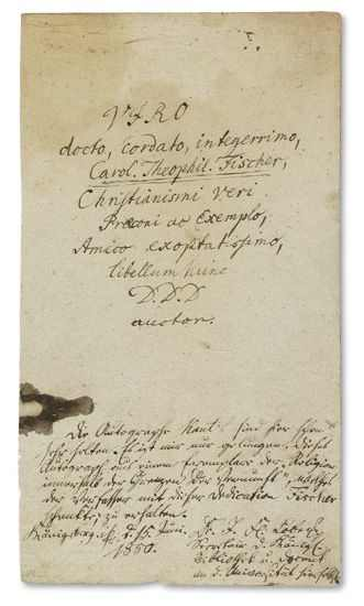 Autograph Inscription by Immanuel Kant. An unsigned latin language dedication to his student Carl Gottlieb Fischer, on a blank leaf excised from a copy of his Die Religion innerhalb der Grenzen der bloßen Vernunft. At the bottom of the page is a confirmation by Secretary of the Royal Library at Königsberg Justus Florian Lobeck, in German, dated June 15, 1850, attesting that the Kant autograph was gotten from the volume that was gifted to Fischer. Description derived from auction catalogue. Auction held on 3. November 2011, lot 257.